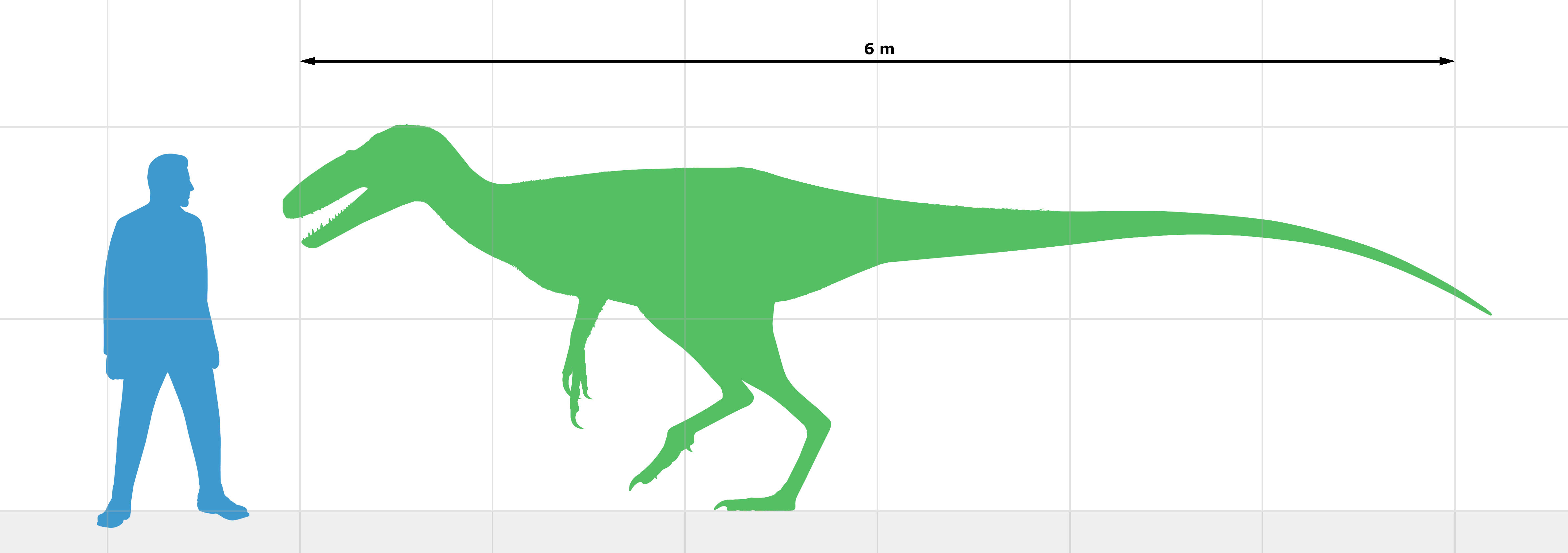 Size chart of the holotype specimen, compared to a 1.8 metre tall human. Silhouette based on human from (CC-0 [1]))